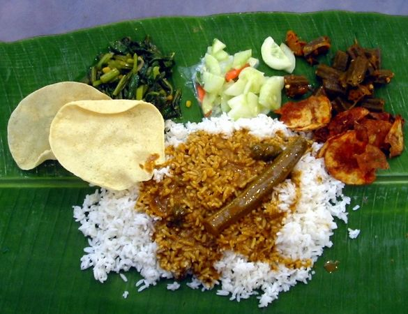 Picture of Banana leaf rice